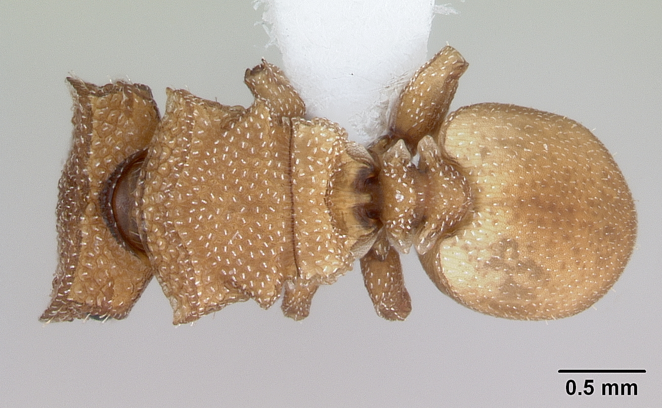 Dorsal view of ant Cephalotes grandinosus specimen casent0173699.